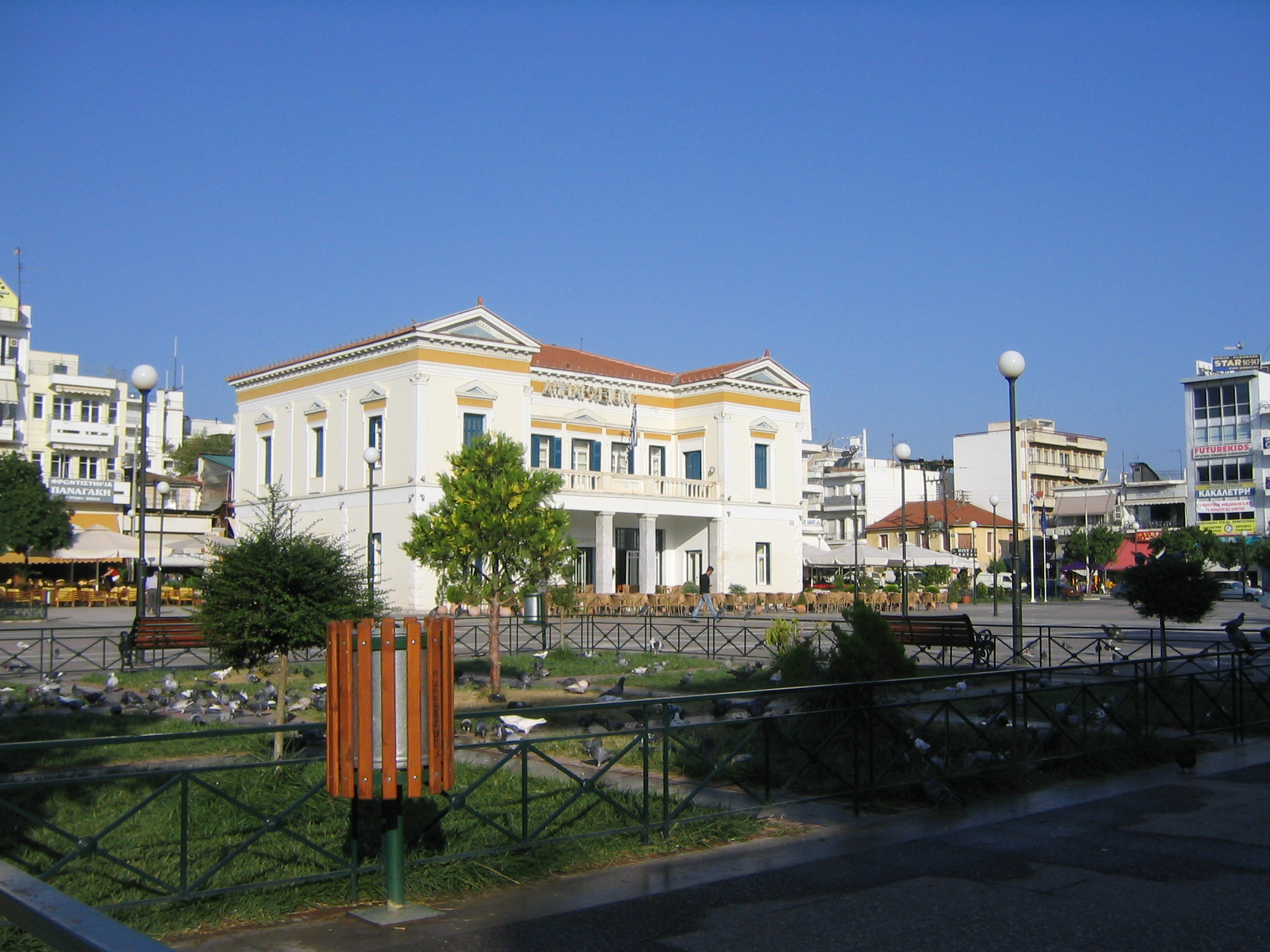 Centre of modern Sparta